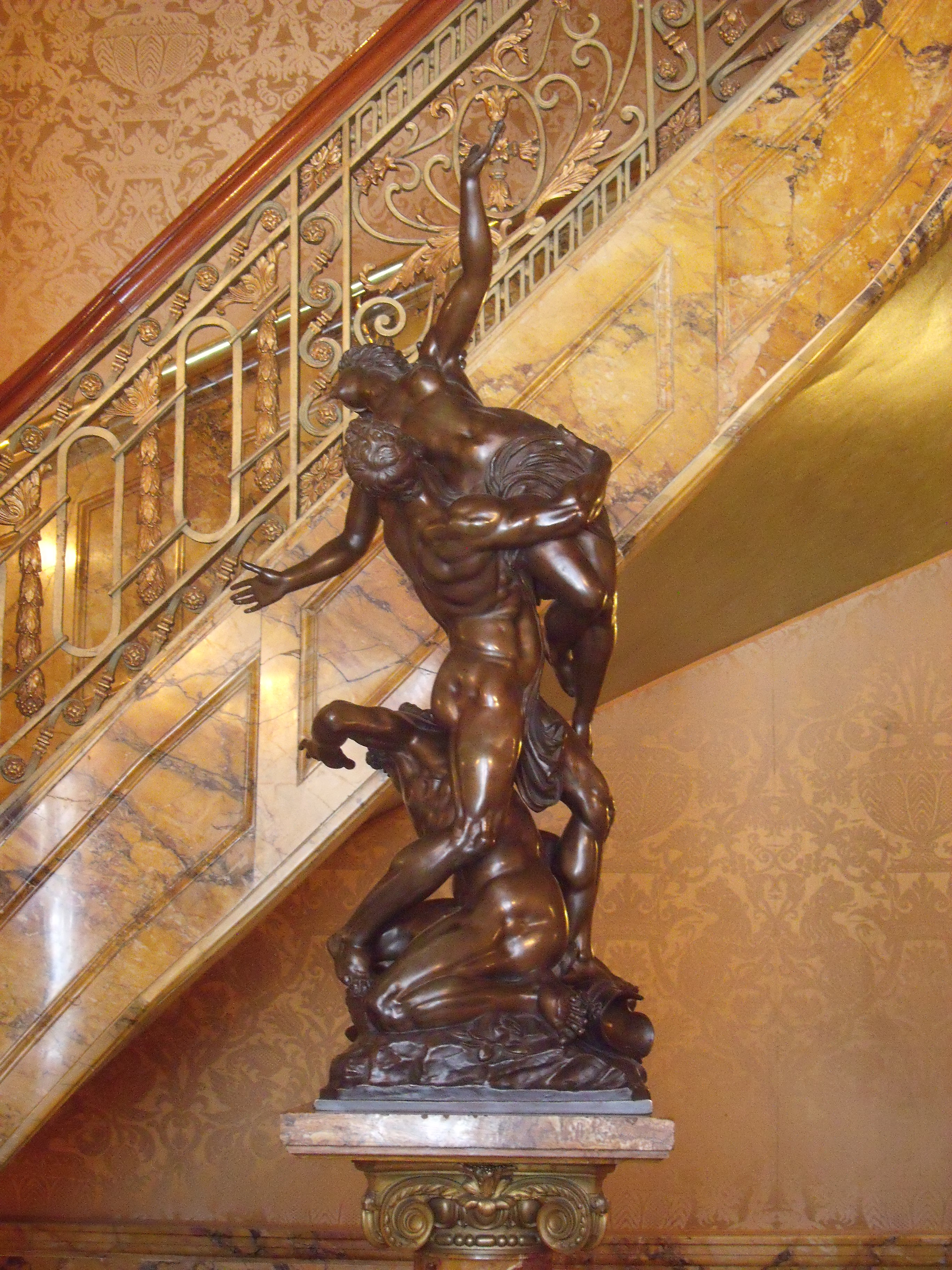 Replica of The Rape of the Sabine Women by Jean Boulogne, Oscar Dufresne House, Château Dufresne Museum, 4040 Sherbooke Street East, Montreal, Quebec, Canada.